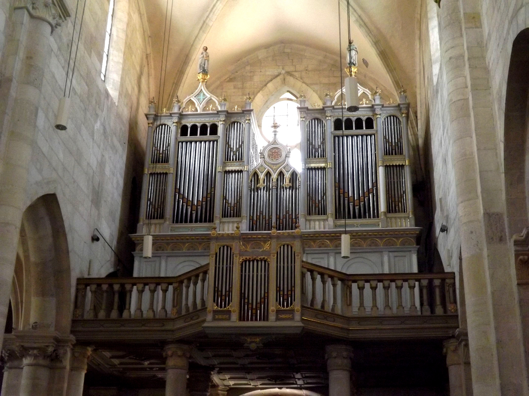 Built by István Kolonics 1877, renovated in 2009.